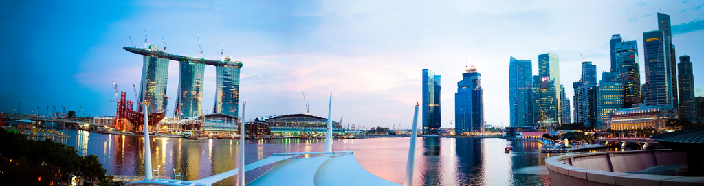 A panorama of Marina Bay in Singapore. On the left is Marina Bay Sands, and the Central Business District is on the right.